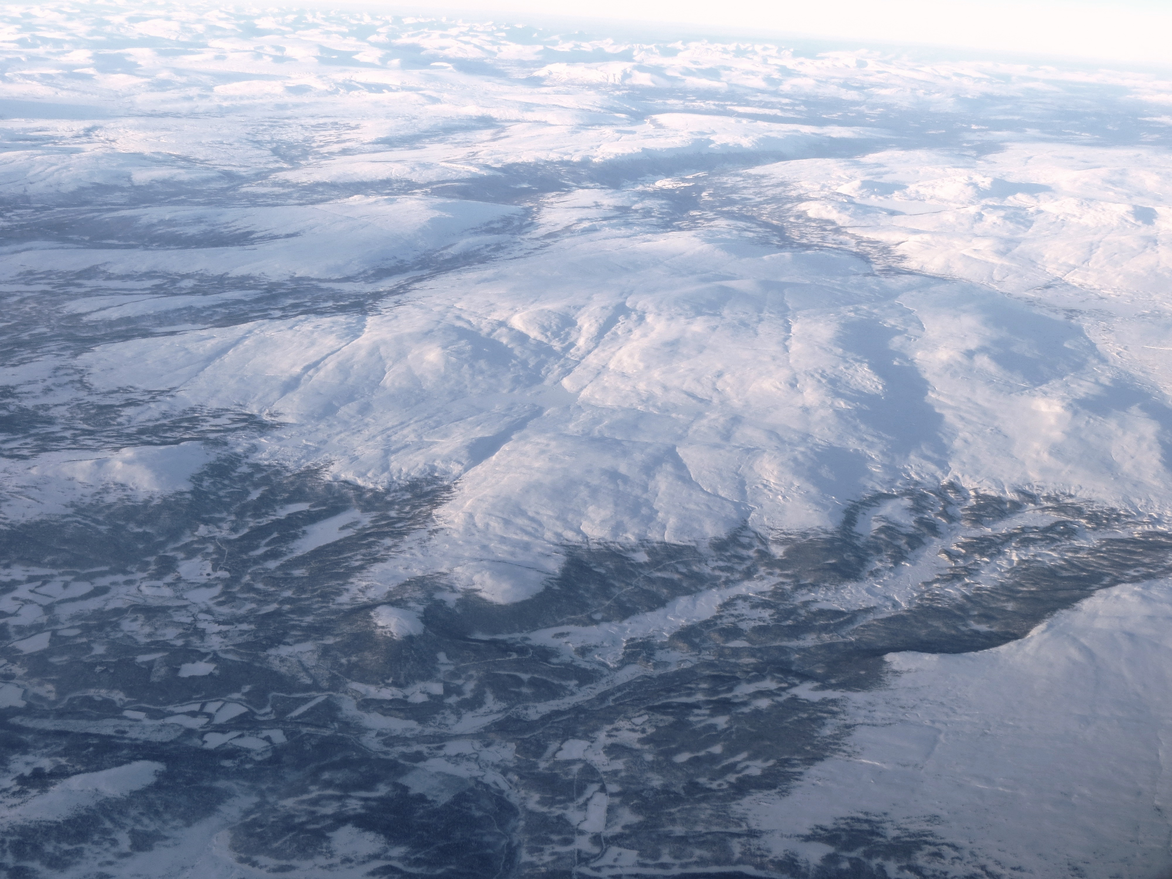 Aerial view over the municipality of Tolga, northern Hedmark county - east Norway